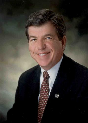 Roy Blunt, member of the United States House of Representatives.